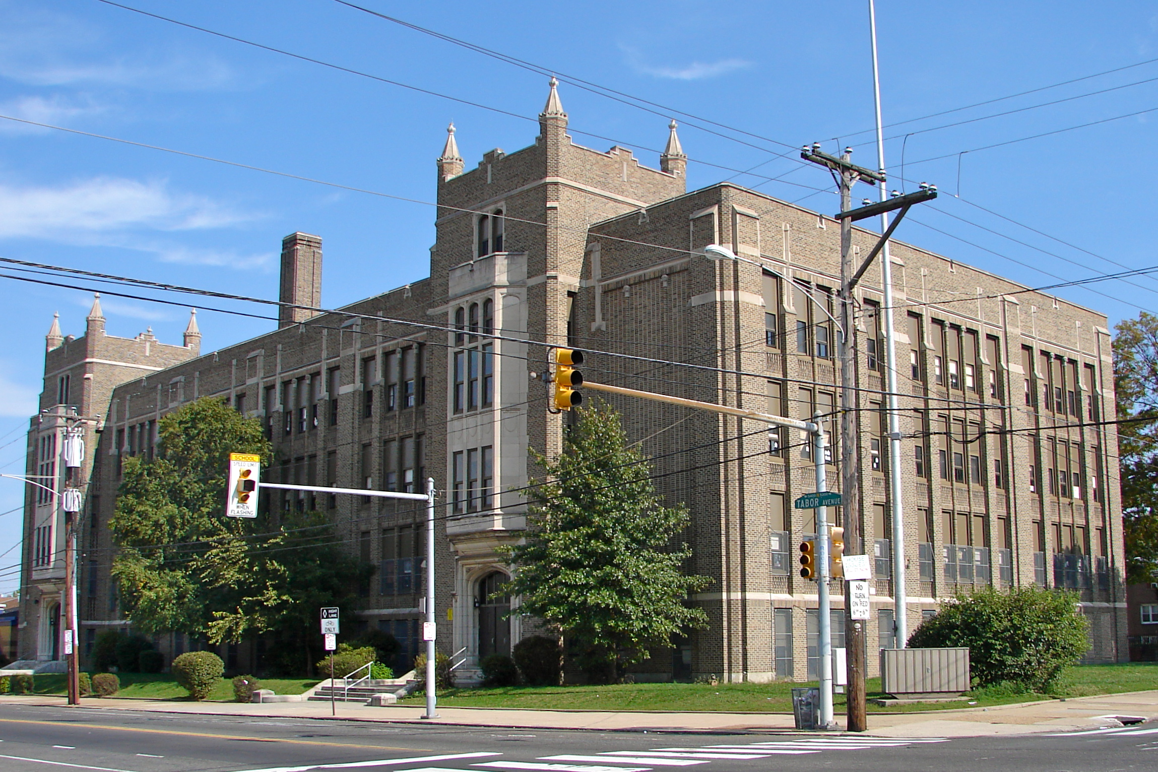 Thomas Creighton School in Philadelphia on the NRHP since November 18, 1988. At 5401 Tabor Avenue, a bit south of Roosevelt Road, in the NE Philly neighborhood of Crescentville